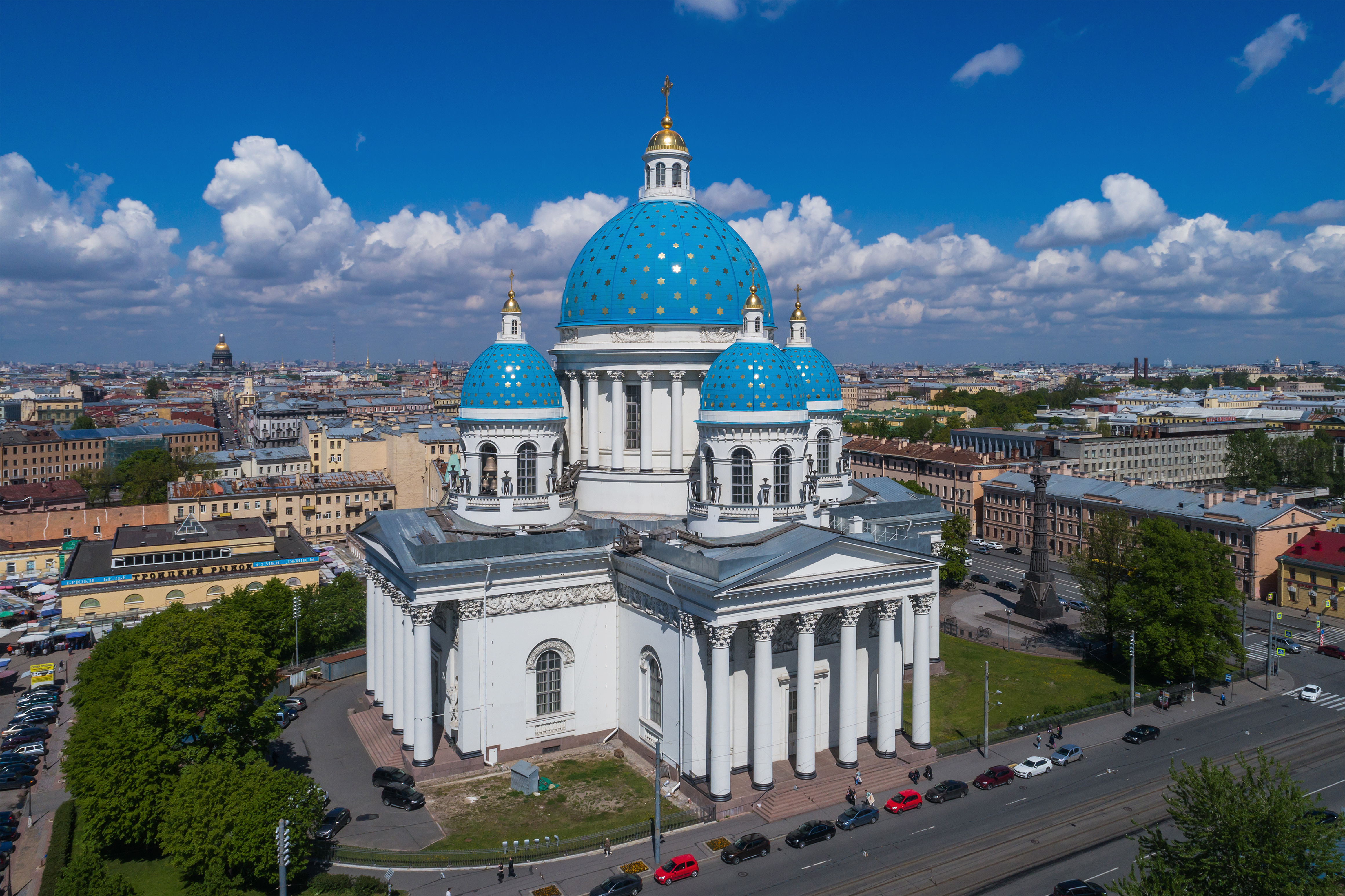 Aerial photo of the Trinity Cathedral in Saint Petersburg (Russia).